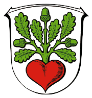 Coat of Arms of Egelsbach